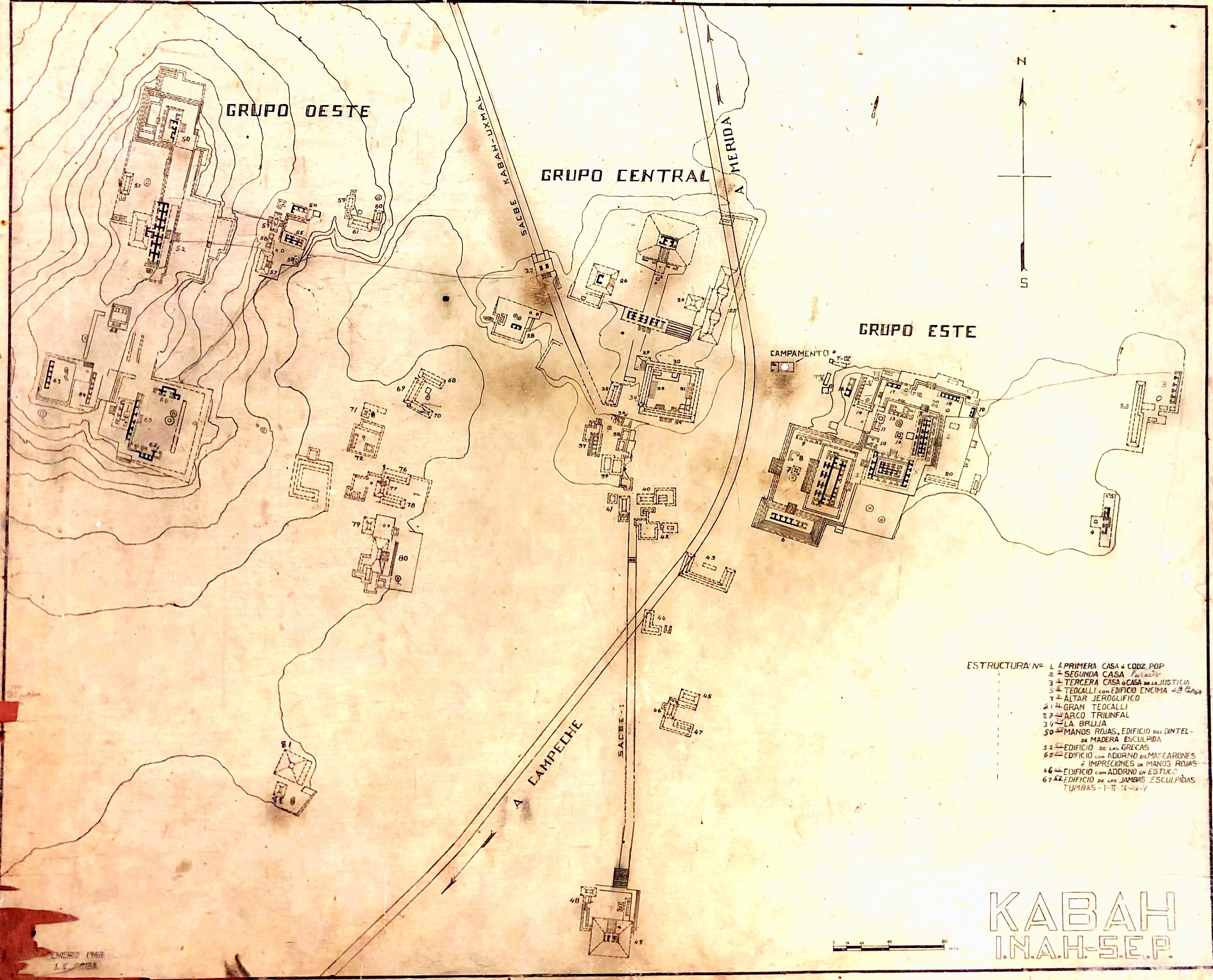 This is the map of the Kabah Maya archeological zone posted on the wall of the visitors center.